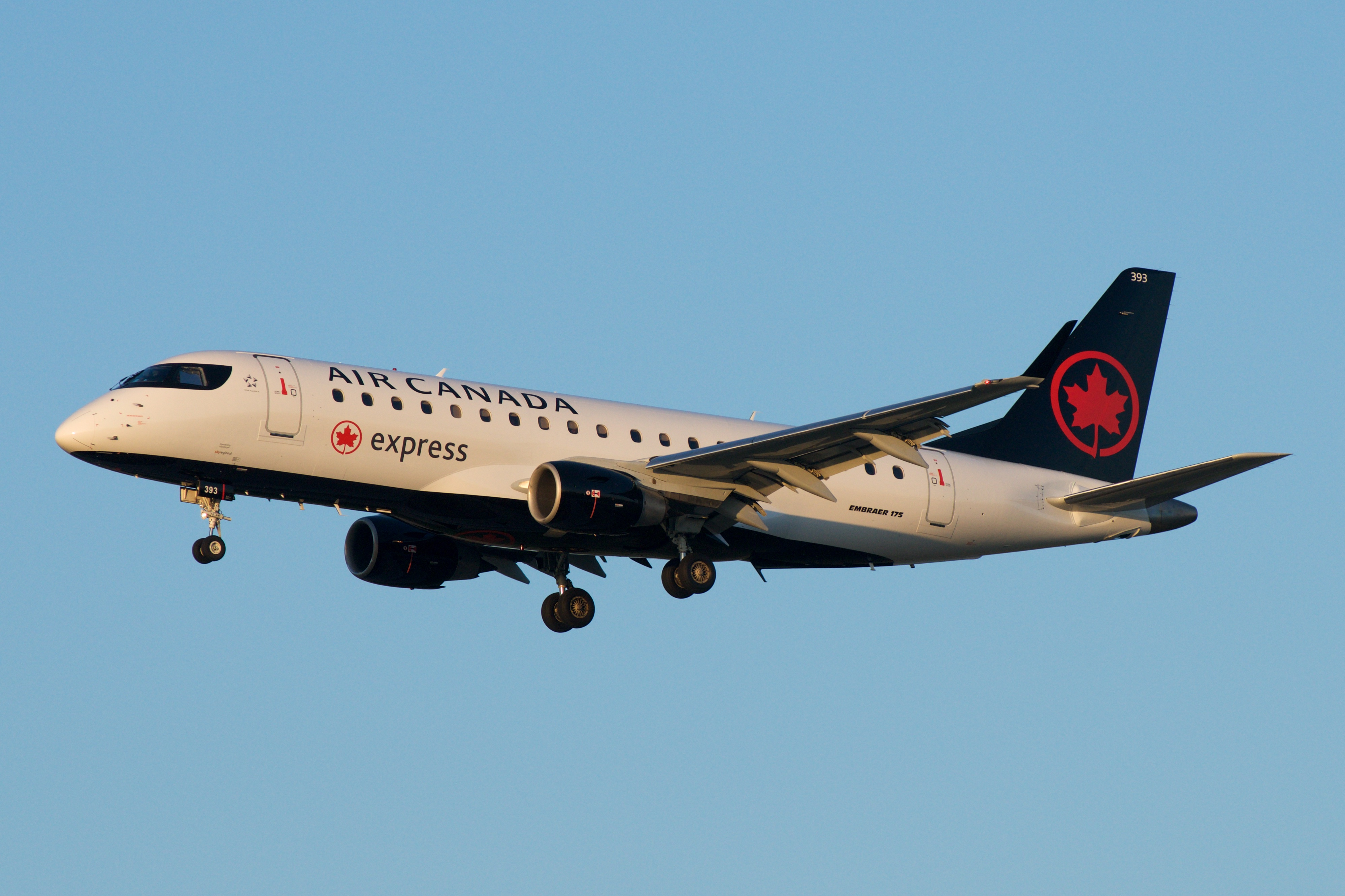 Arriving YYZ. New scheme.